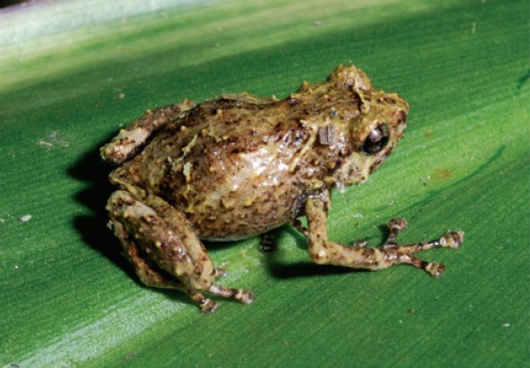 Paratype of Albericus murritus (BPBM 33656).